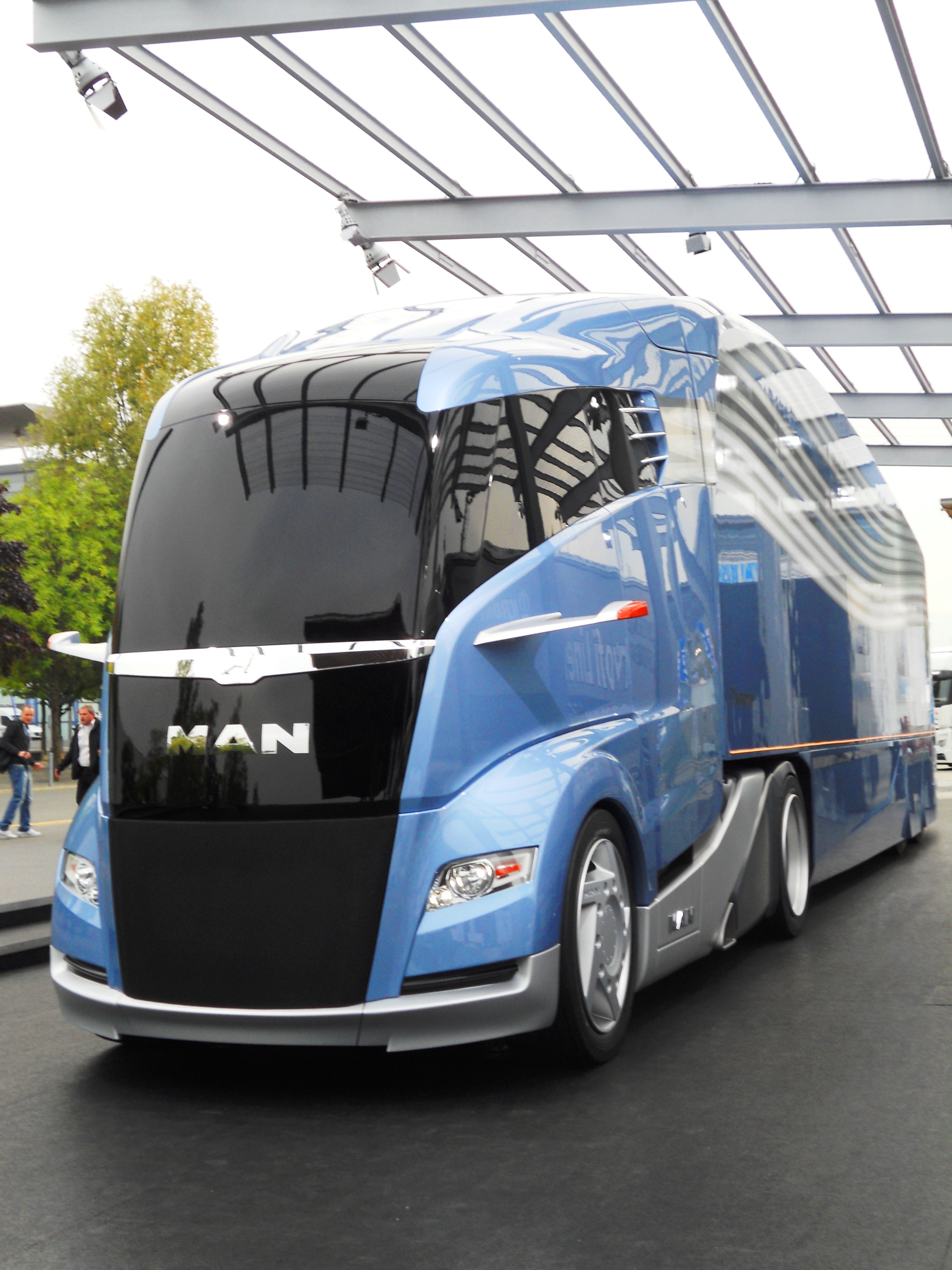 MAN Concept truck with Krone Trailer AeroLiner. The vehicle offers the loading volume of a conventional truck; nevertheless, it shows the low drag coefficient of a passenger car. Length of the whole train: 20.4 metres. The trailer was moved on highways; however, the truck itself cannot be driven on public roads. Photo taken at exhibition IAA 2012 in Hanover, Germany.